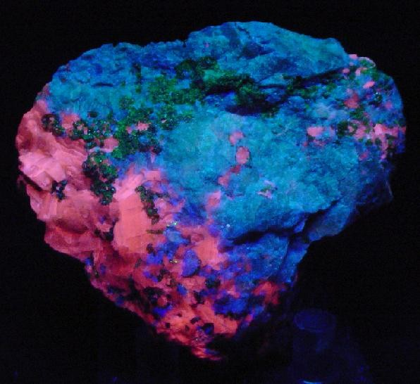 Hardystonite, Clinohedrite, Calcite, Willemite Locality: Franklin Mine, Franklin, Franklin Mining District, Sussex County, New Jersey, USA (Locality at ) Size: 7.0 x 6.0 x 3.2 cm. A CLASSIC, multi-fluorescent specimen with 4 minerals from the famous Franklin Mine containing: BLUE hardystonite (ultra-rare Type Locality); ORANGE clinohedrite (ultra-rare Type Locality); RED calcite; and GREEN willemite from the Parker Shaft. This specimen is particularly rich in hardystonite. Ex George Elling Collection, a noted Franklin/Sterling Hill collector.